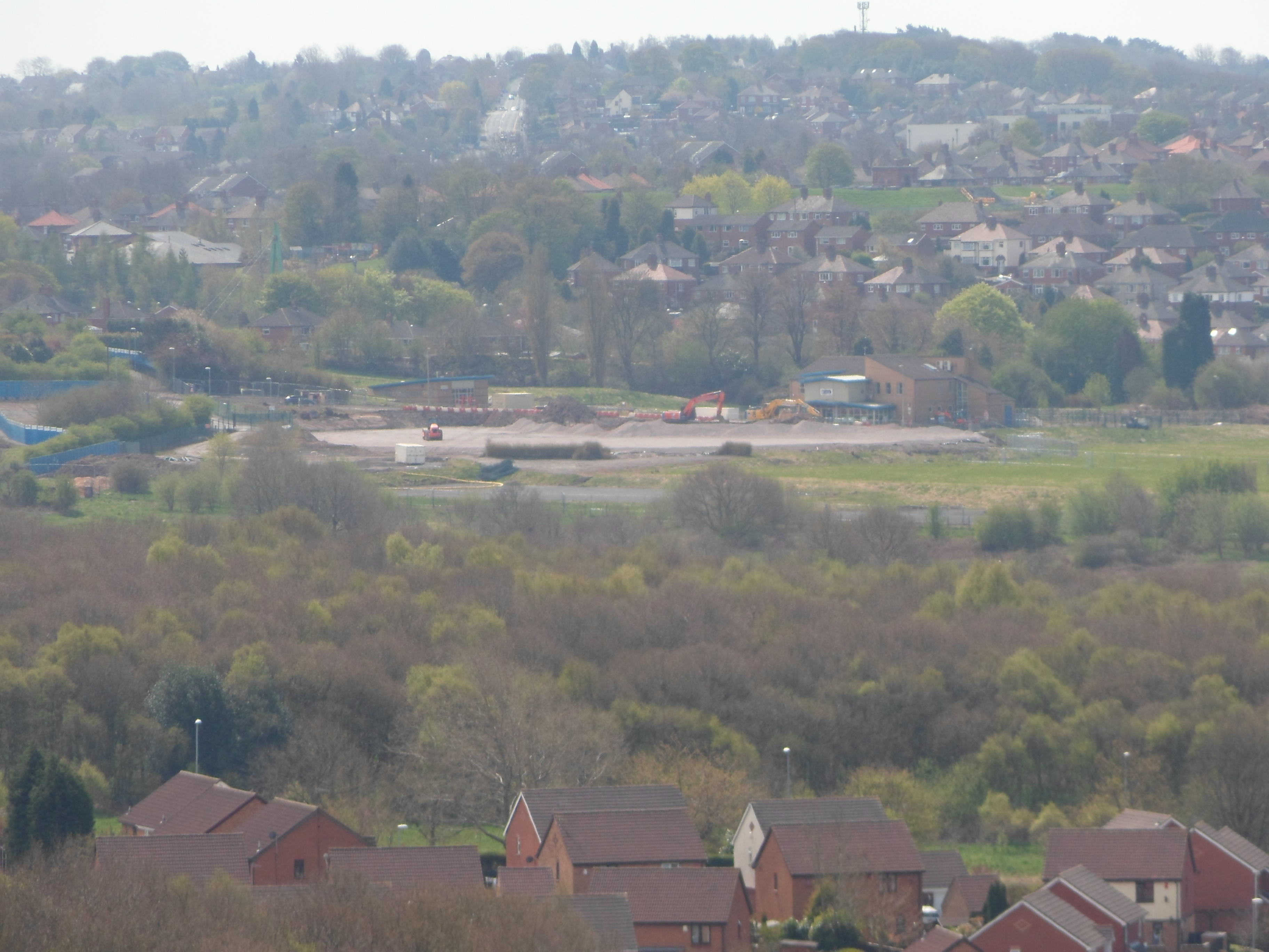 Remains of Longton High School